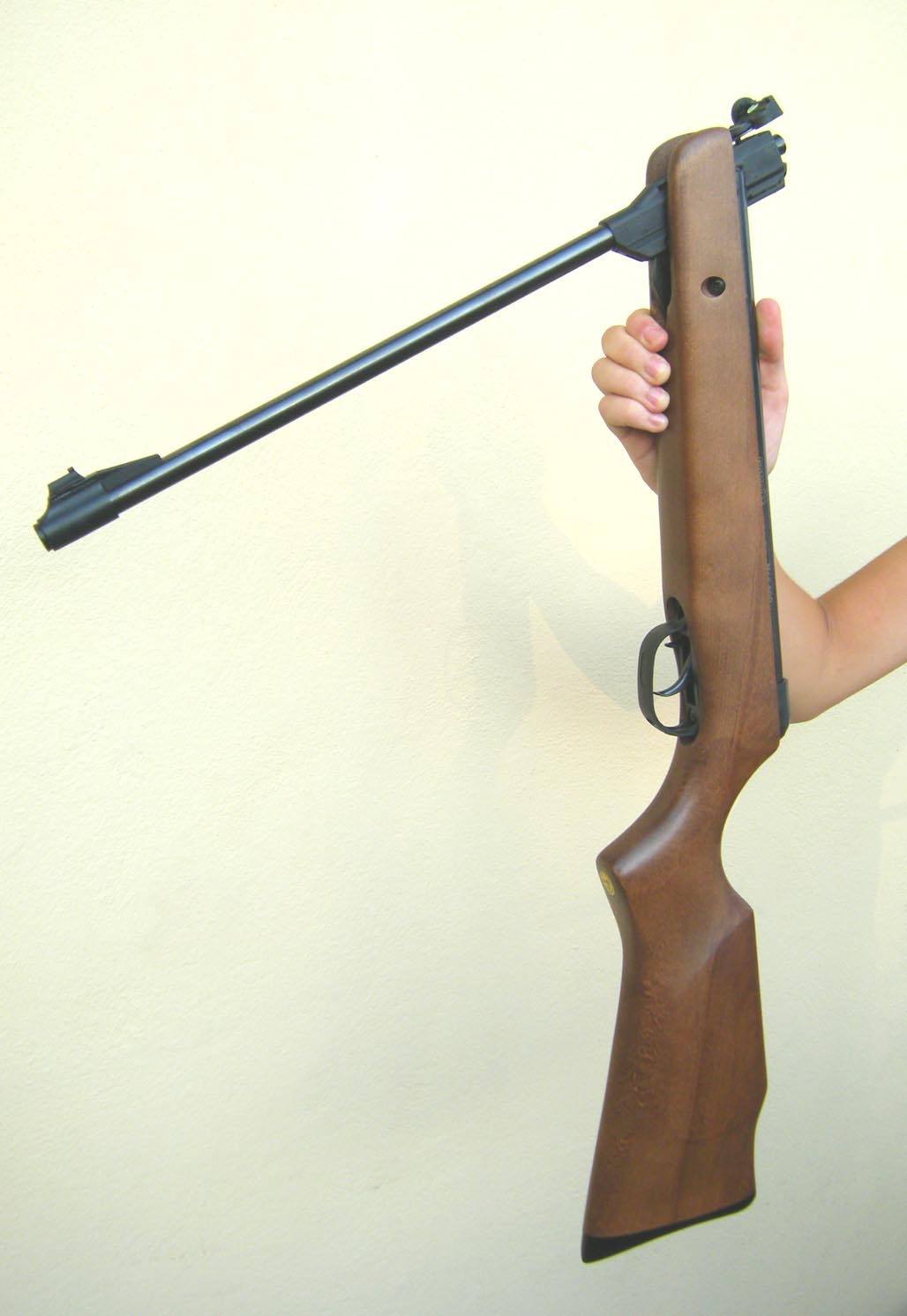 daystates feeble attempt at air rifles started with this piece of tat and they haven't got much better since. The user shown here invites disaster by not holding on to the barrel while cocking and loading the rifle.